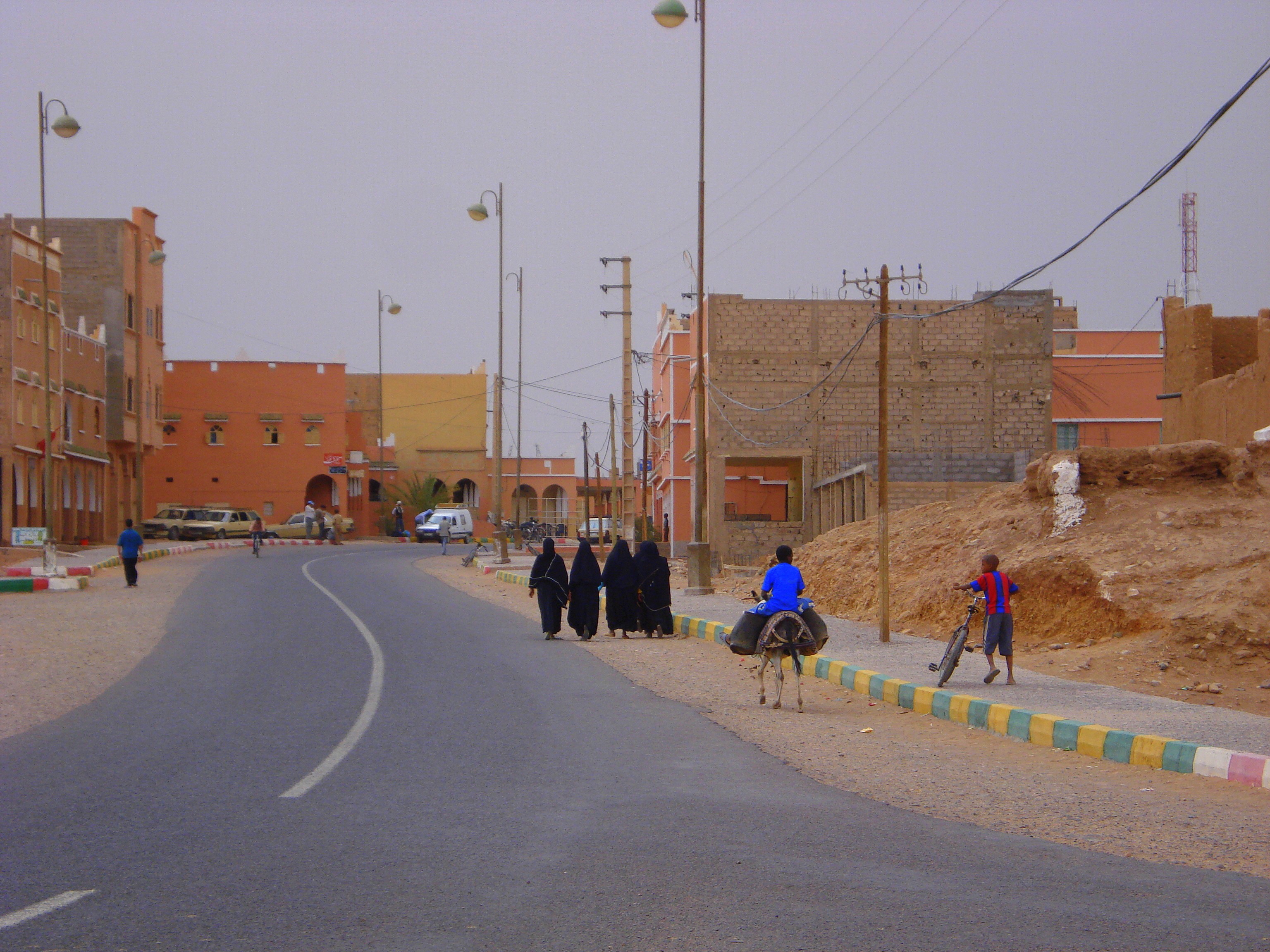 Tamegroute